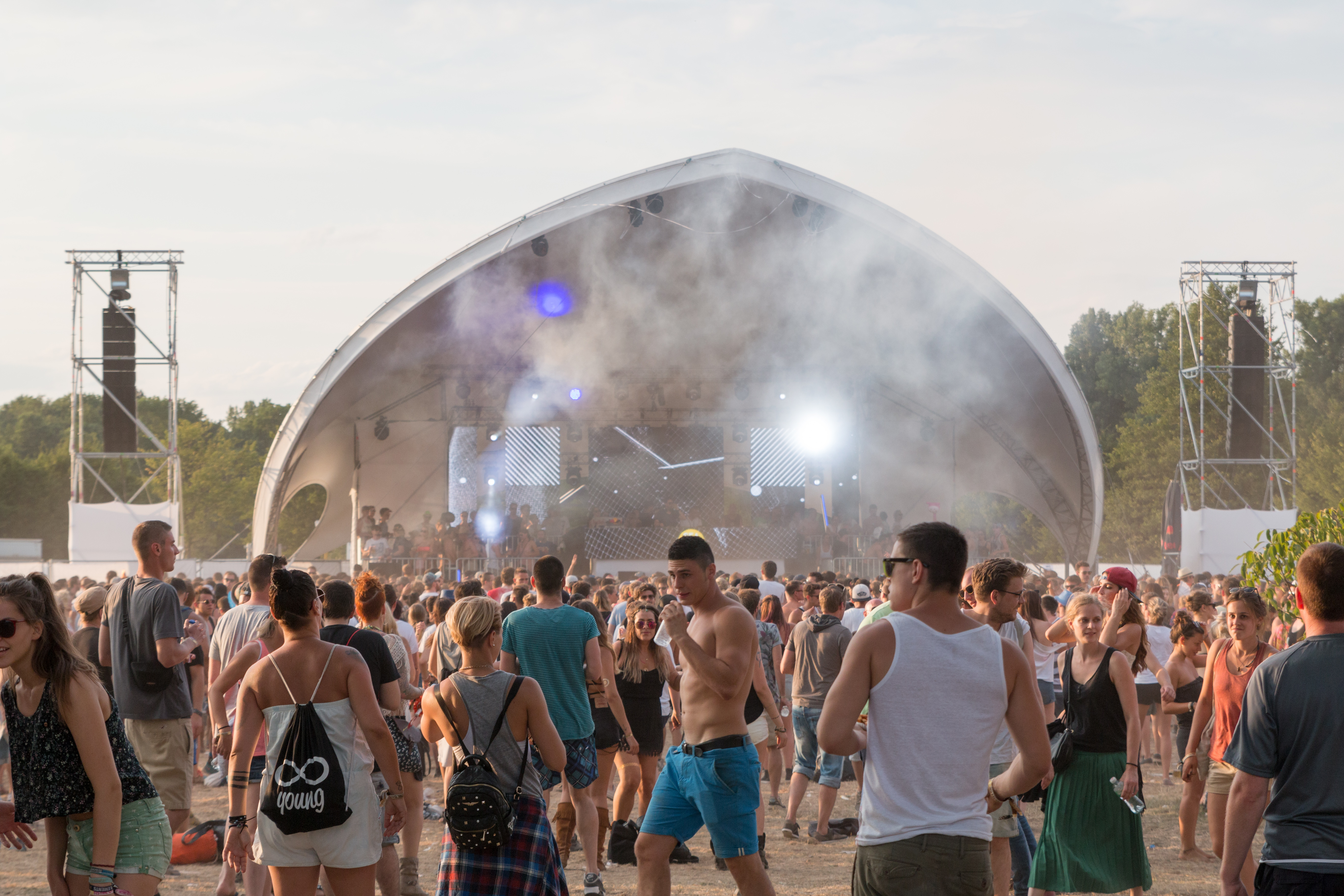 Sea You Festival in Freiburg im Breisgau on July 19th, 2015.